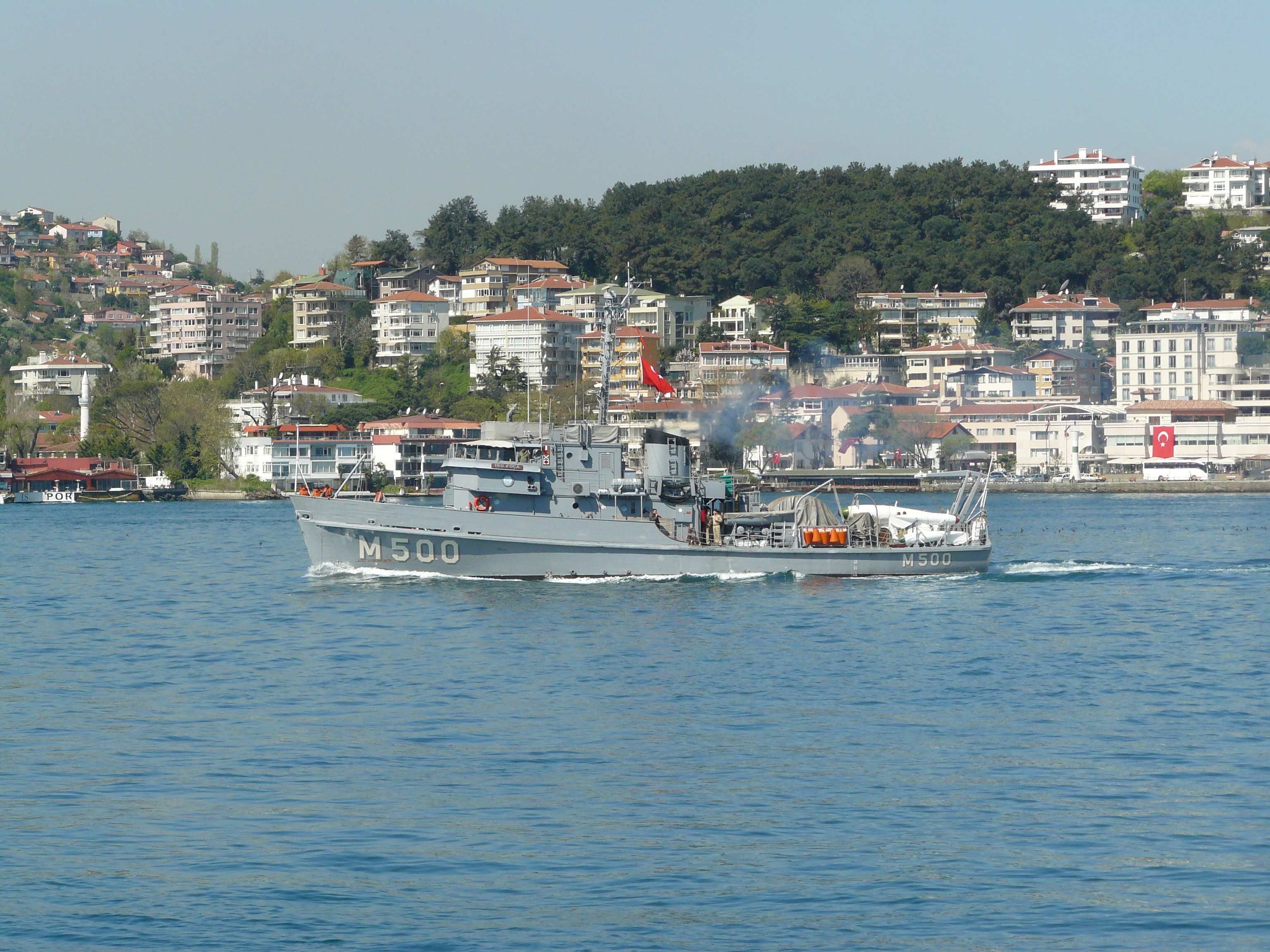 Turkish Minesweeper: TCG Foça (M-500)